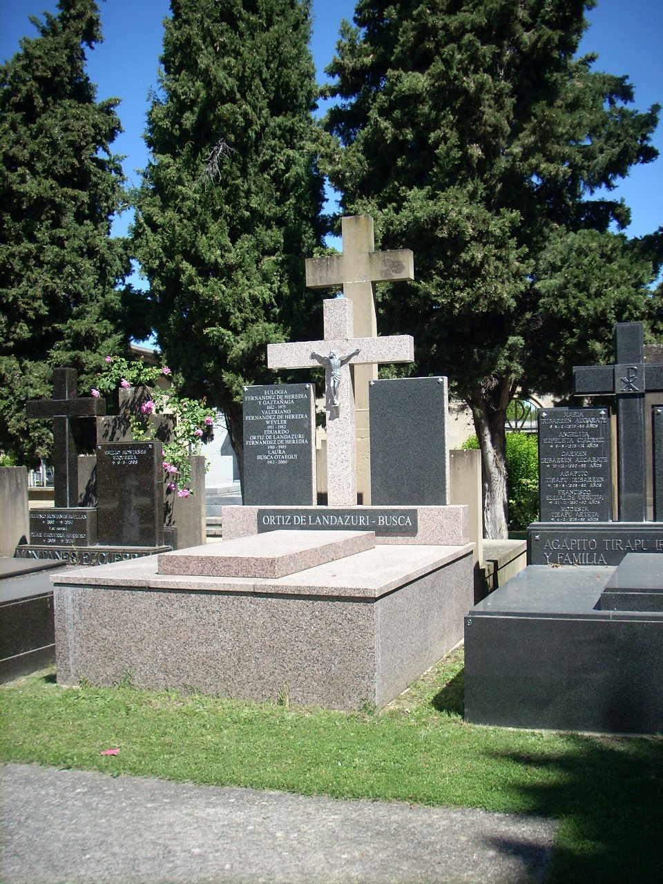 Eduardo Ortiz de Landazuri was buried in his family tomb in the Cemetery of Pamplona (Carretera Cementerio) the 22th of May 1985. The tomb can be found in the Cuadro 24, near the intersection of two internal paths, the Calle San Gabriel and the Calle San Lucas.